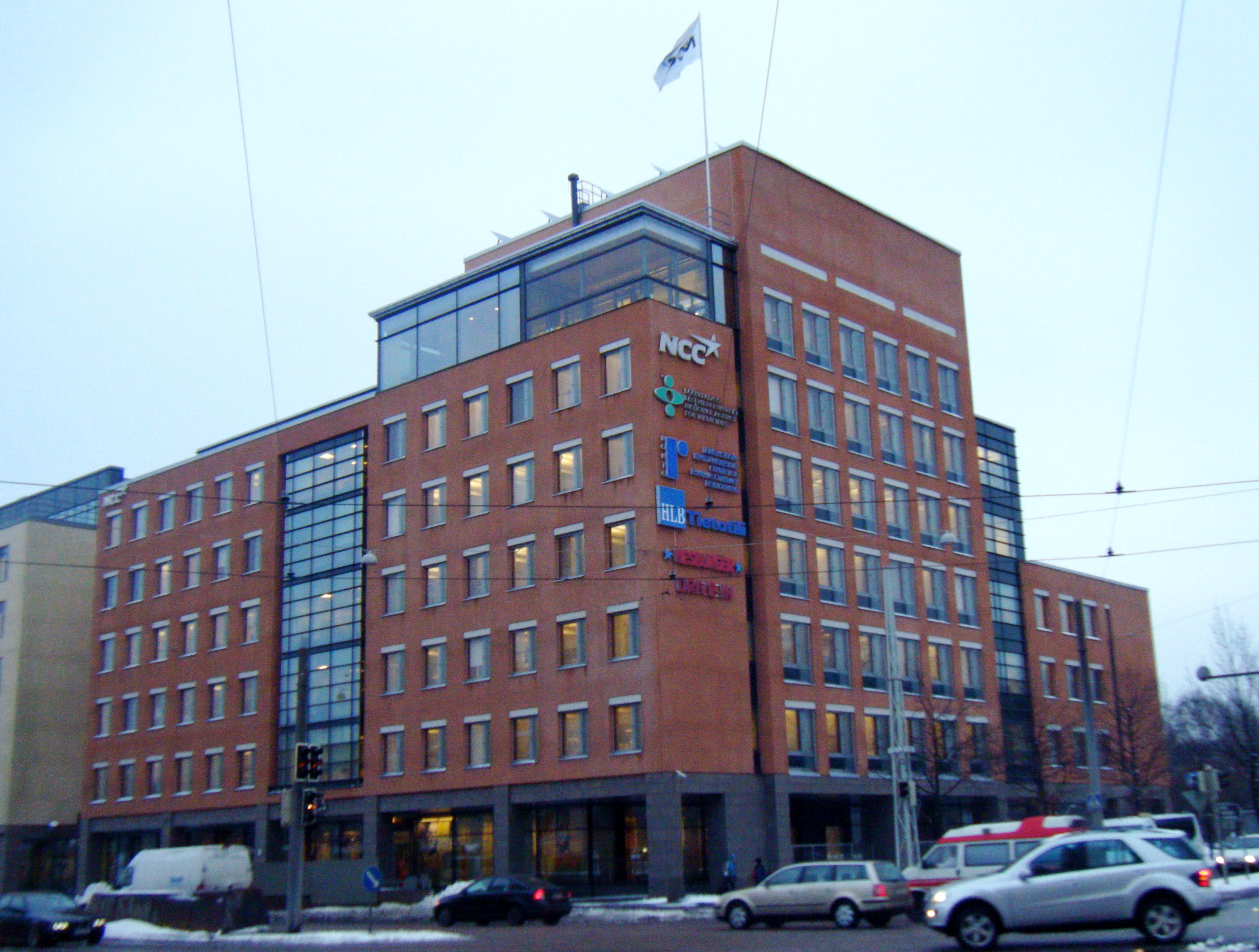 National Agency for Medicines, Helsinki, Finland